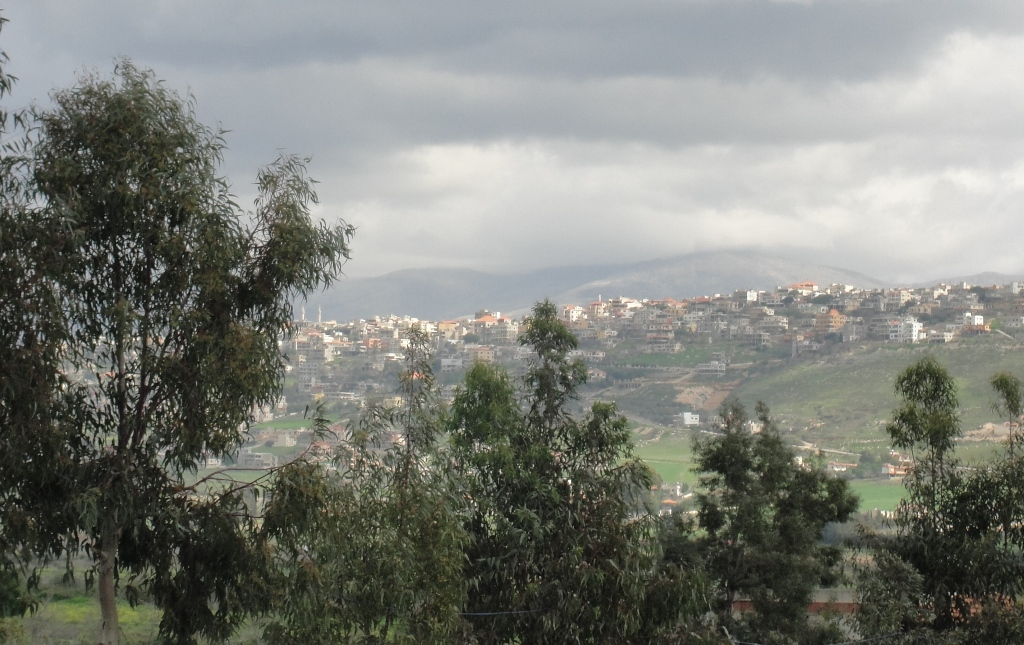 The town of Khiam, Lebanon